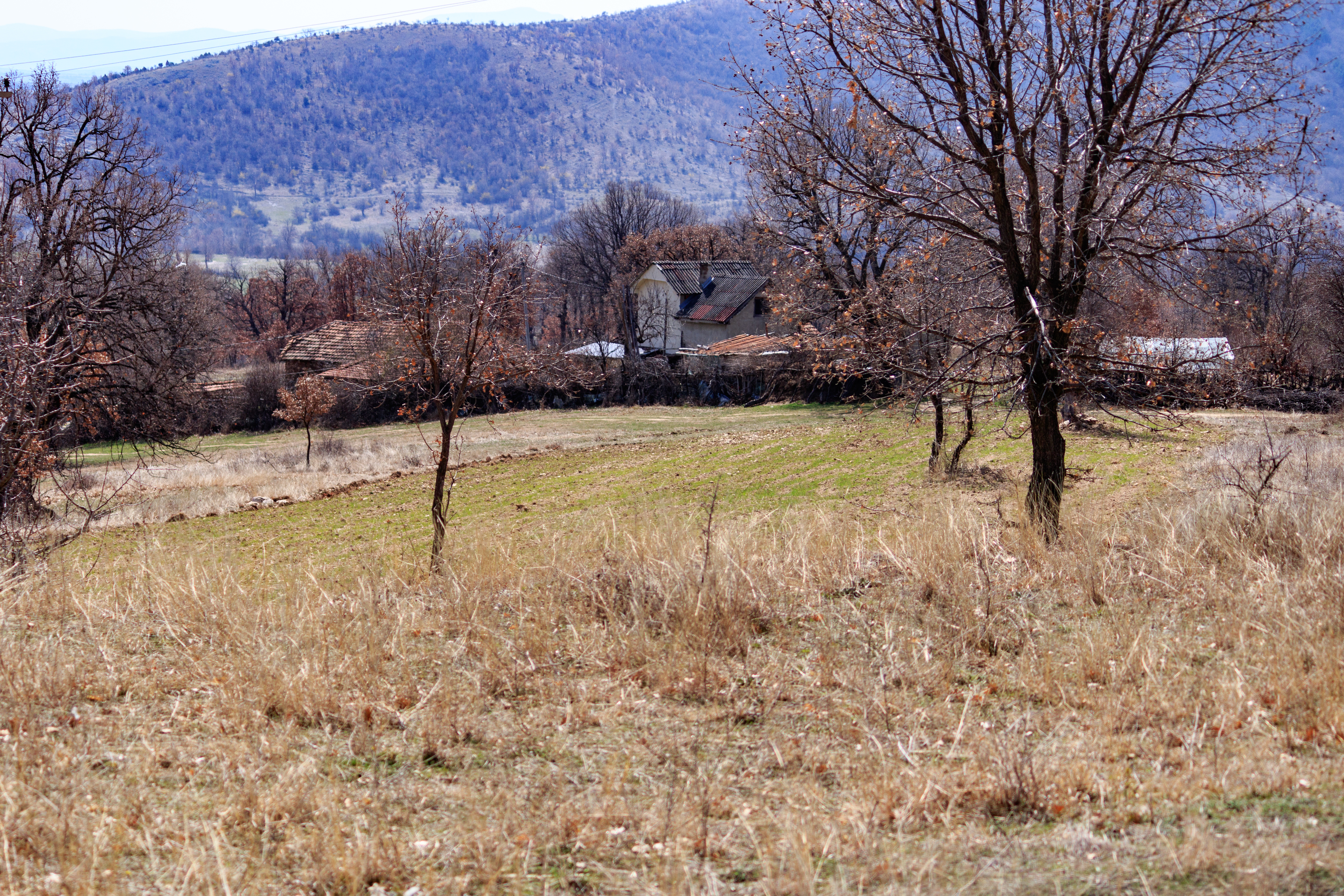 View of the part of the village Stepance